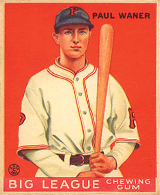 1933 Goudey baseball card of Paul Waner of the Pittsburgh Pirates #25. PD-not-renewed